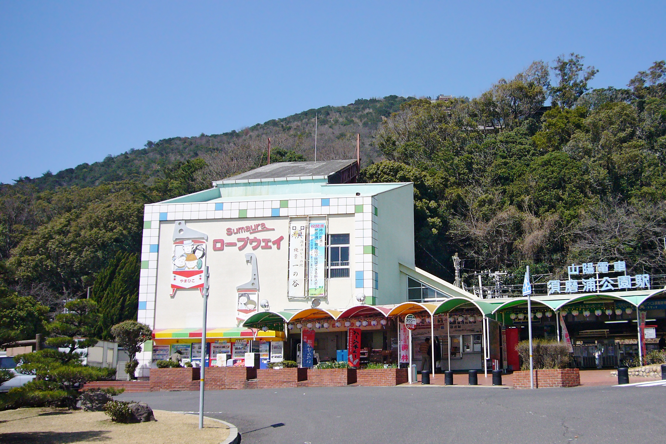 Sumaura-Koen Station in Kobe, Hyogo prefecture, Japan